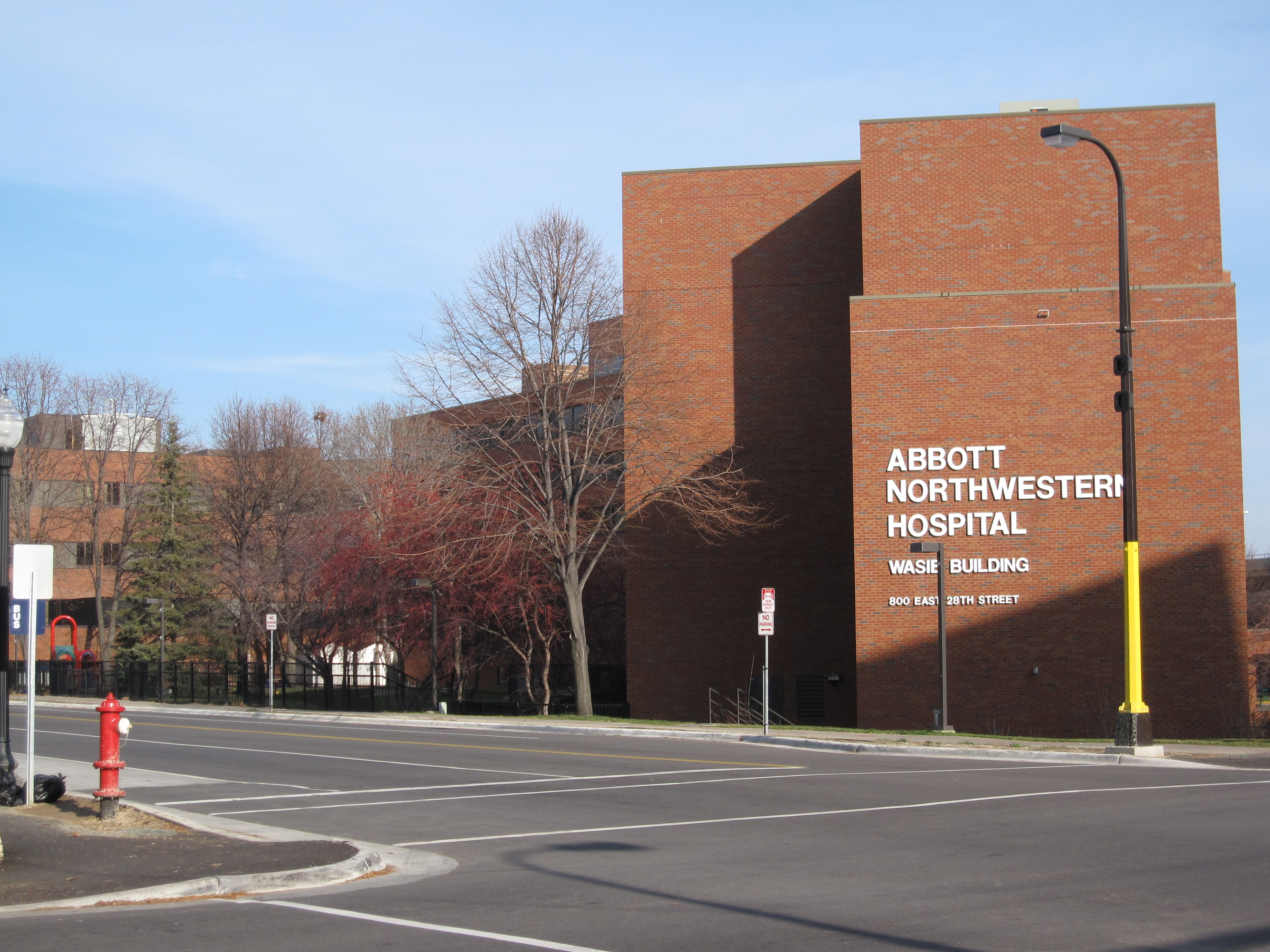 Image of the east 28th Street building of Abbott Northwestern Hospital.